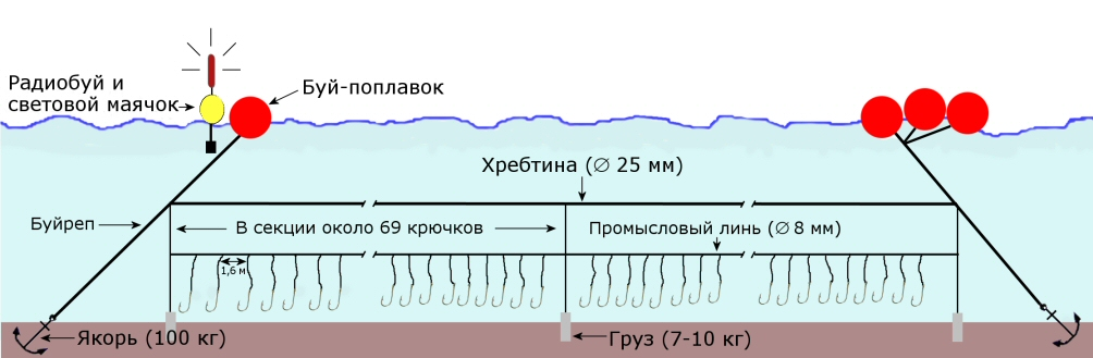 Spanish bottom longline